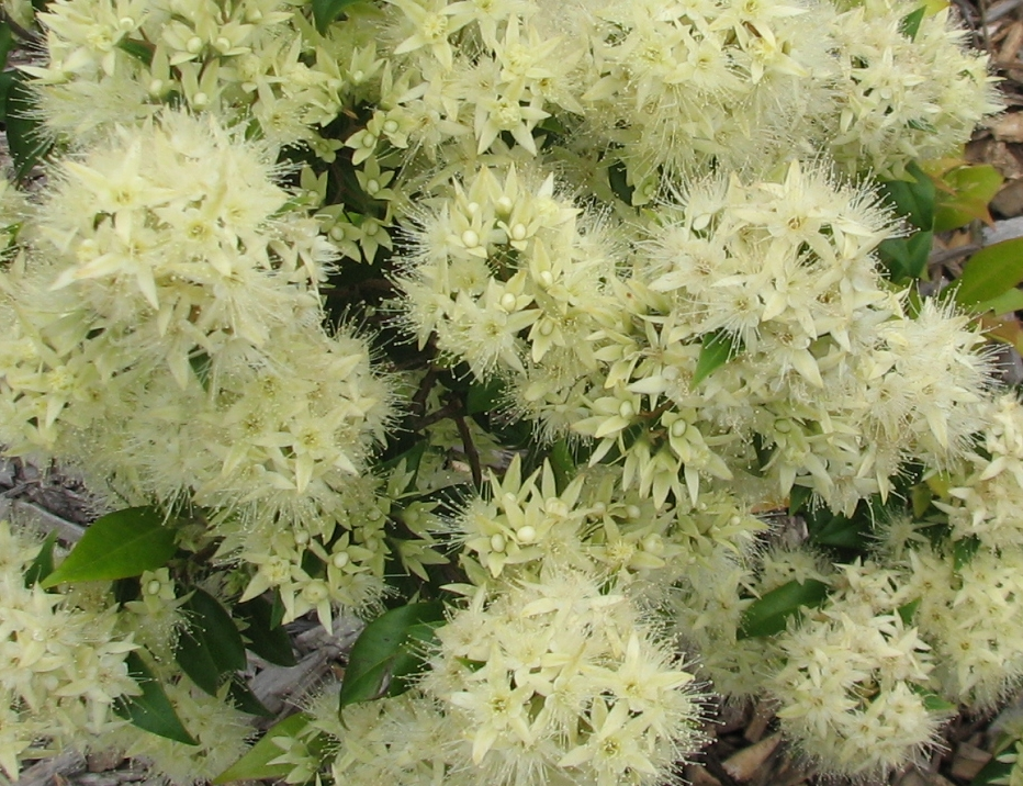 Syzygium anisatum' (cultivated, labelled as Anetholea anisata) , Royal Botanic Gardens Cranbourne, Victoria, Australia